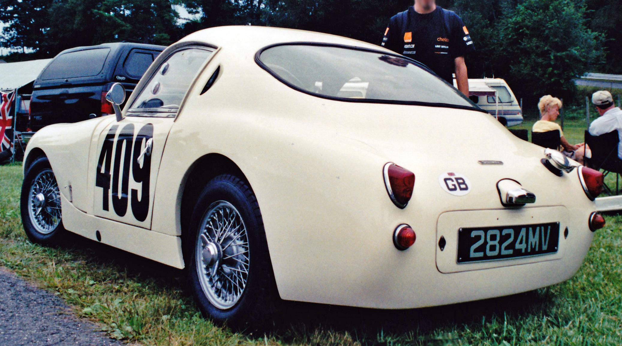 Rear view of 2824 MV, a Speedwell "Frogeye" Sebring Sprite. This very car took part in the 1960 Liège-Rome-Liège rally at the hands of Dan Margulies.